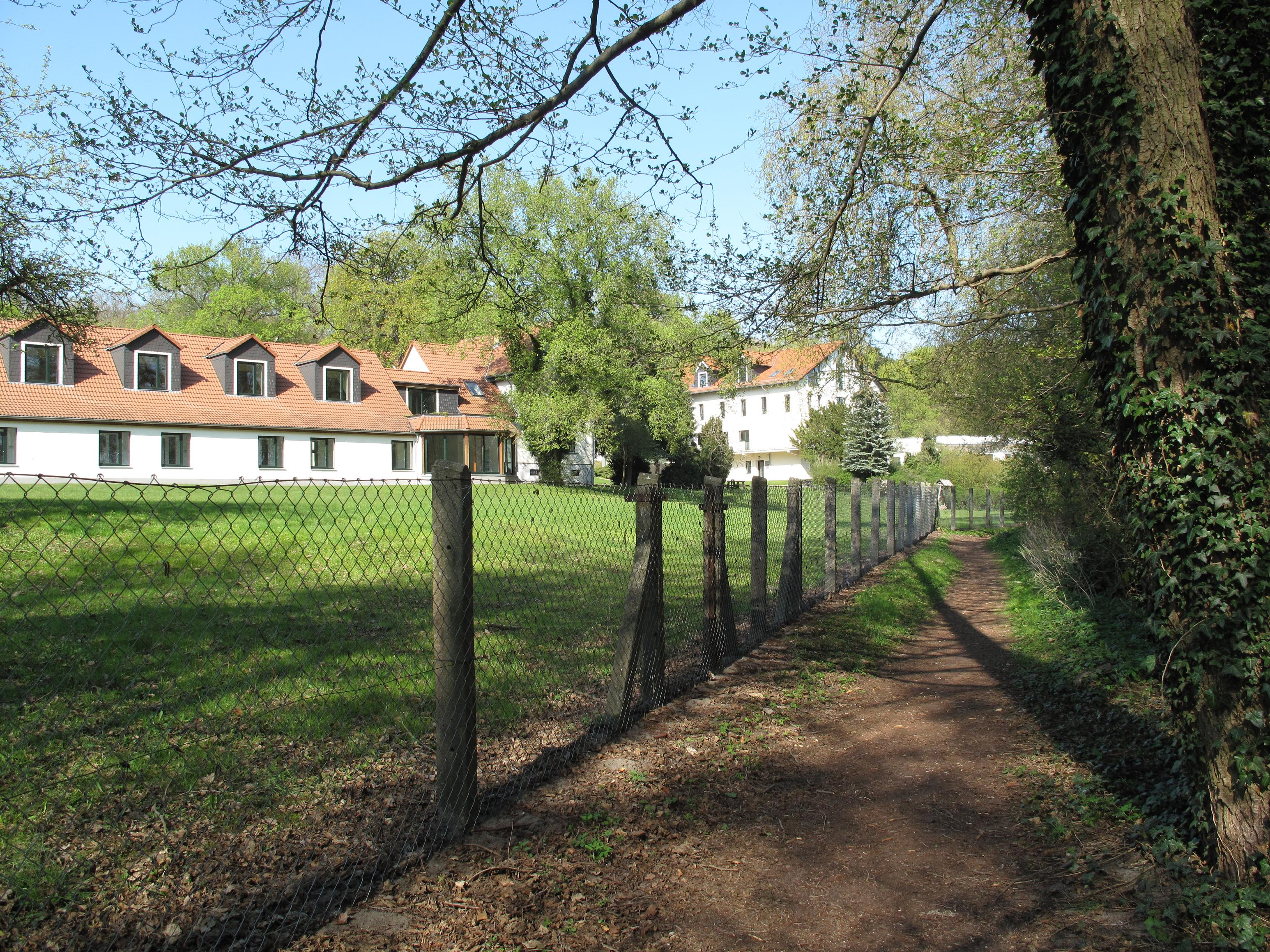 Folk high school (german: Heimvolkshochschule) Seddiner See at the circular walk around the Großer Seddiner See (north-east Bank). The Großer Seddiner See is a glacial lake in the nature park Nuthe-Nieplitz in Germany, Brandenburg, district Potsdam-Mittelmark, and covers 2,18 km². The lake is situated in the municipalities Seddiner See and Michendorf.